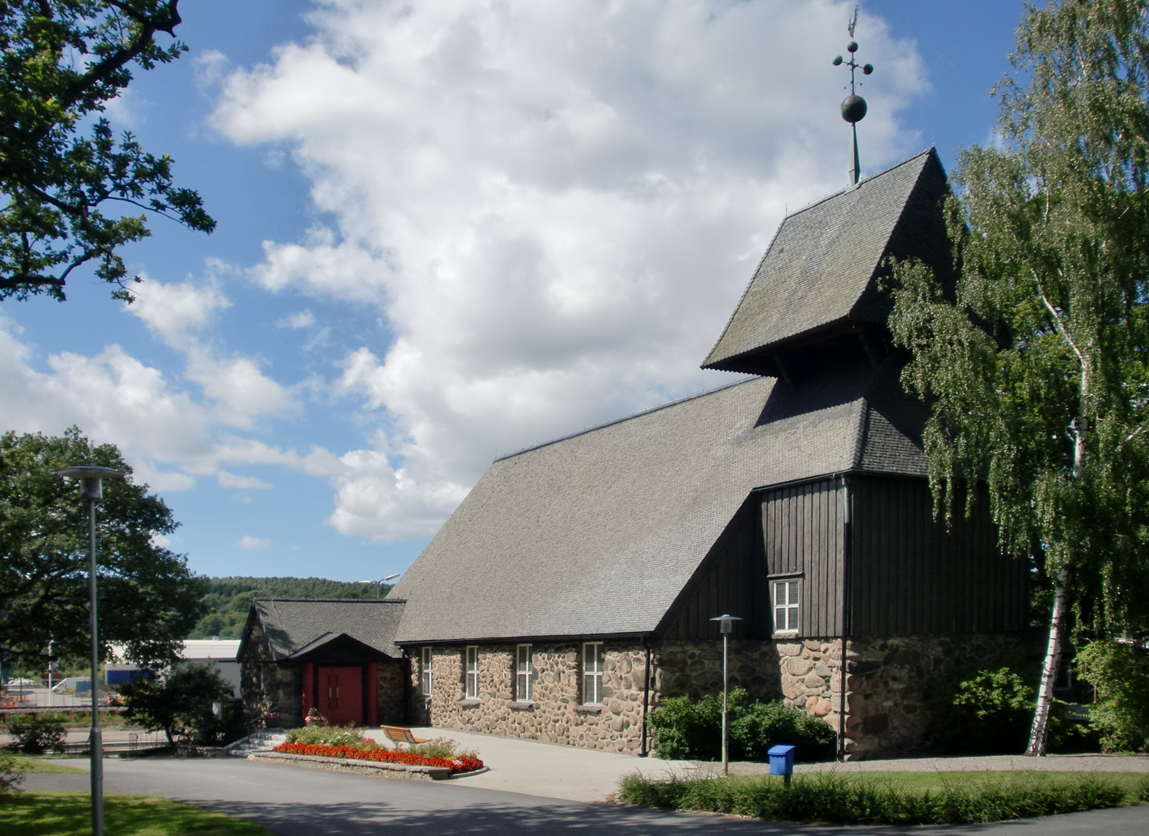 Church in the village Surte north of Gothenburg, Sweden. View from east